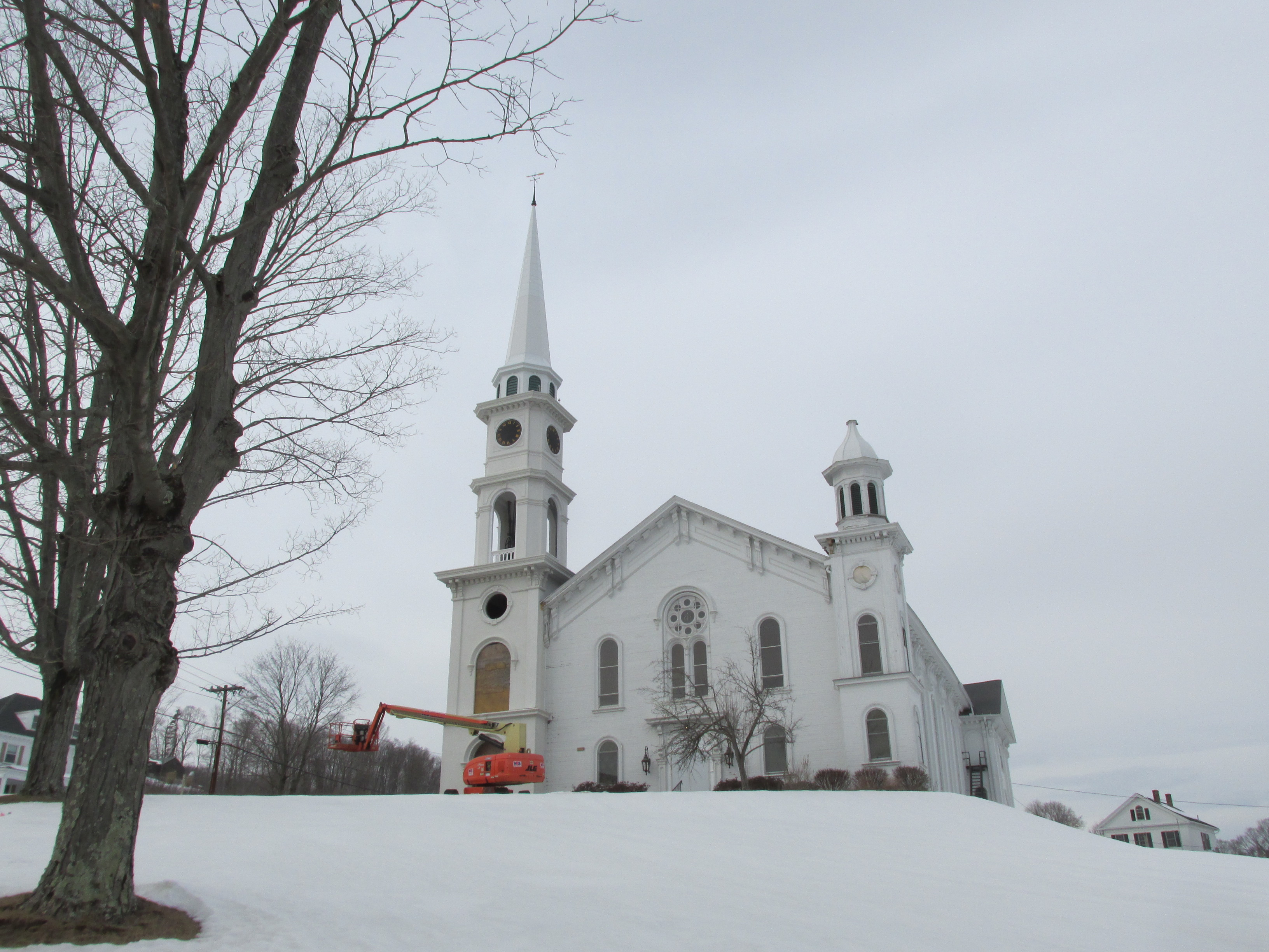 First Church of Monson Congregational, Monson Massachusetts